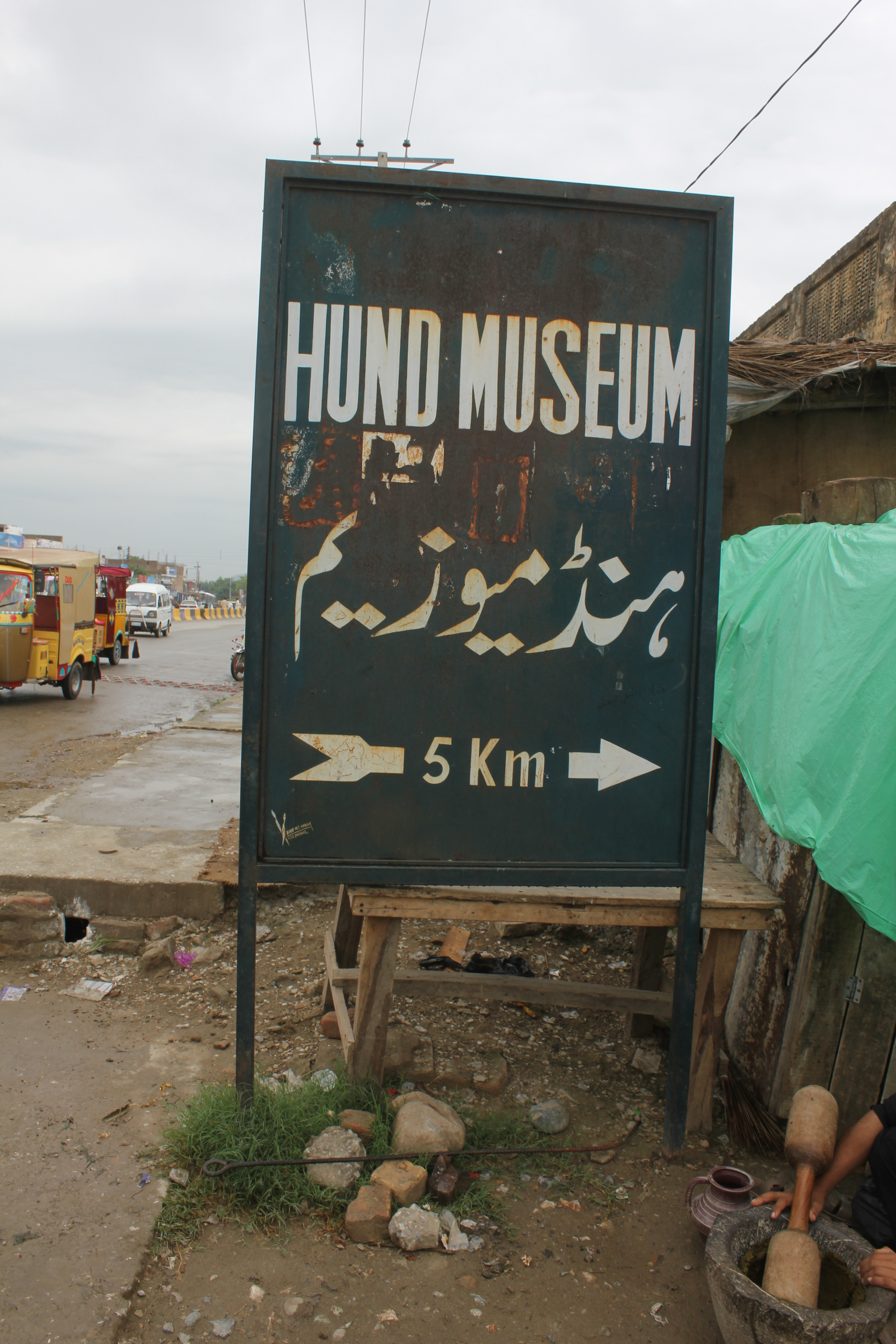 Ruined fort wall This is a photo of a monument in Pakistan identified as the KPK-40